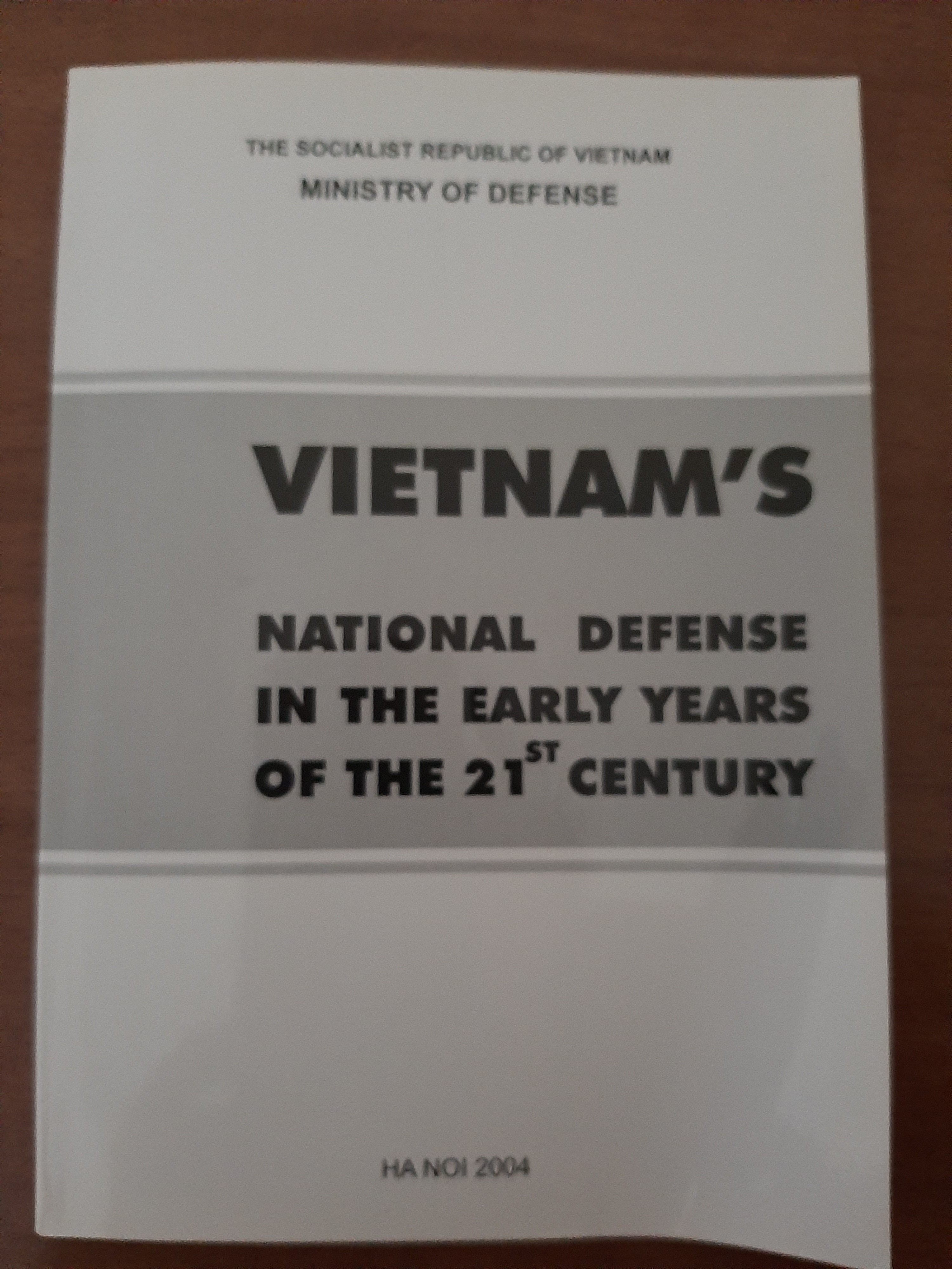 Book cover of 2004 Vietnam defence policy